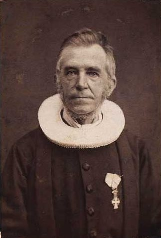 Mouritz Mørk Hansen (1815-1895), Danish priest and politician